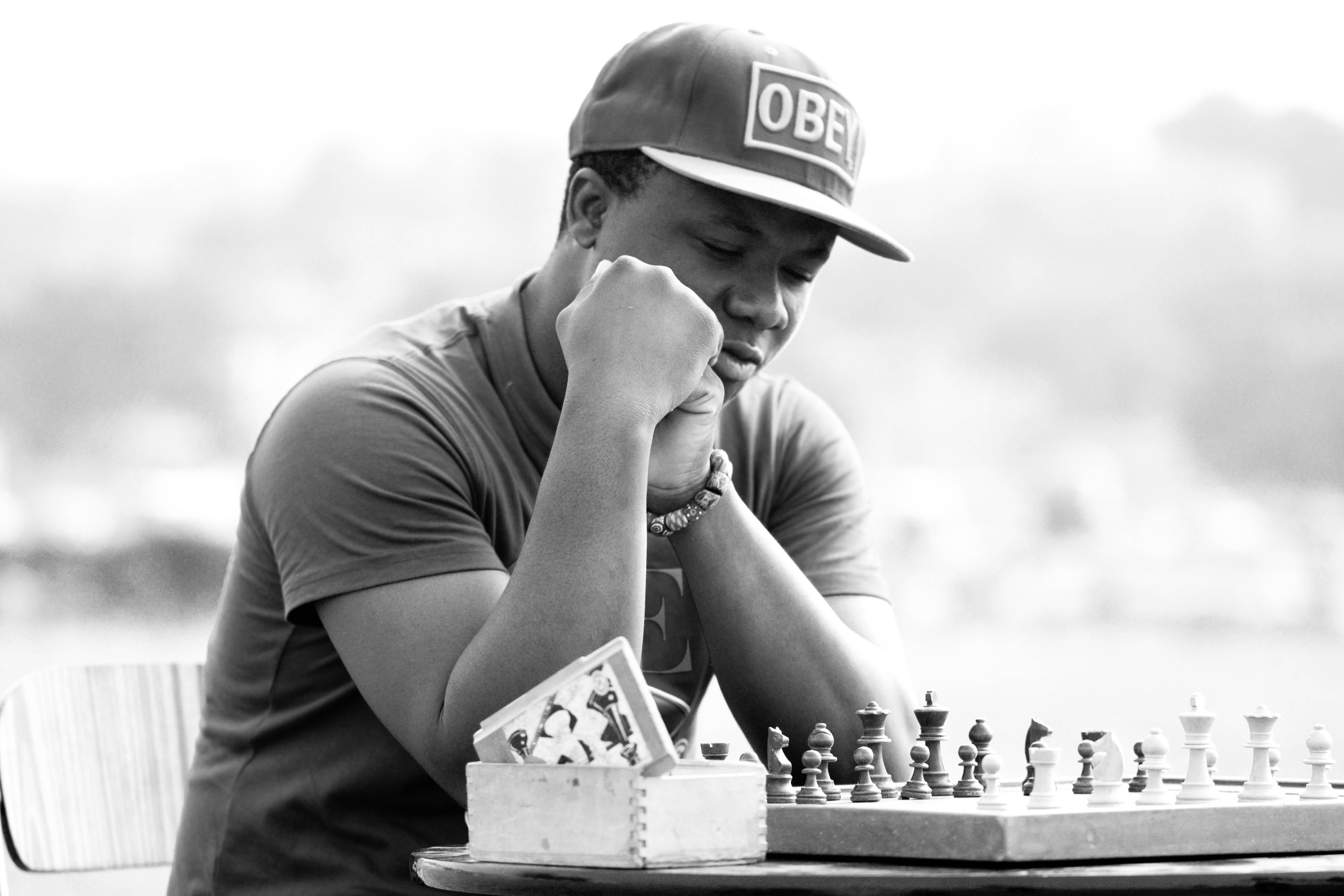 Checkmate